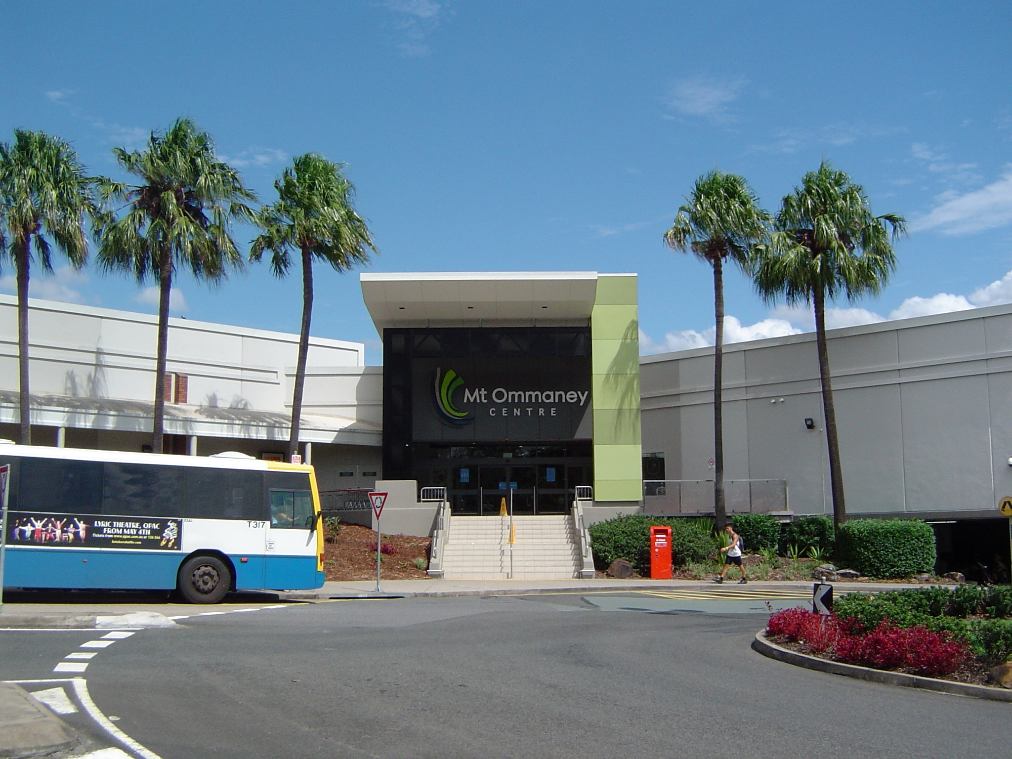 Photo of north western entrance to Mount Ommaney Shopping Centre at Mount Ommaney, Brisbane, Queensland, Australia.